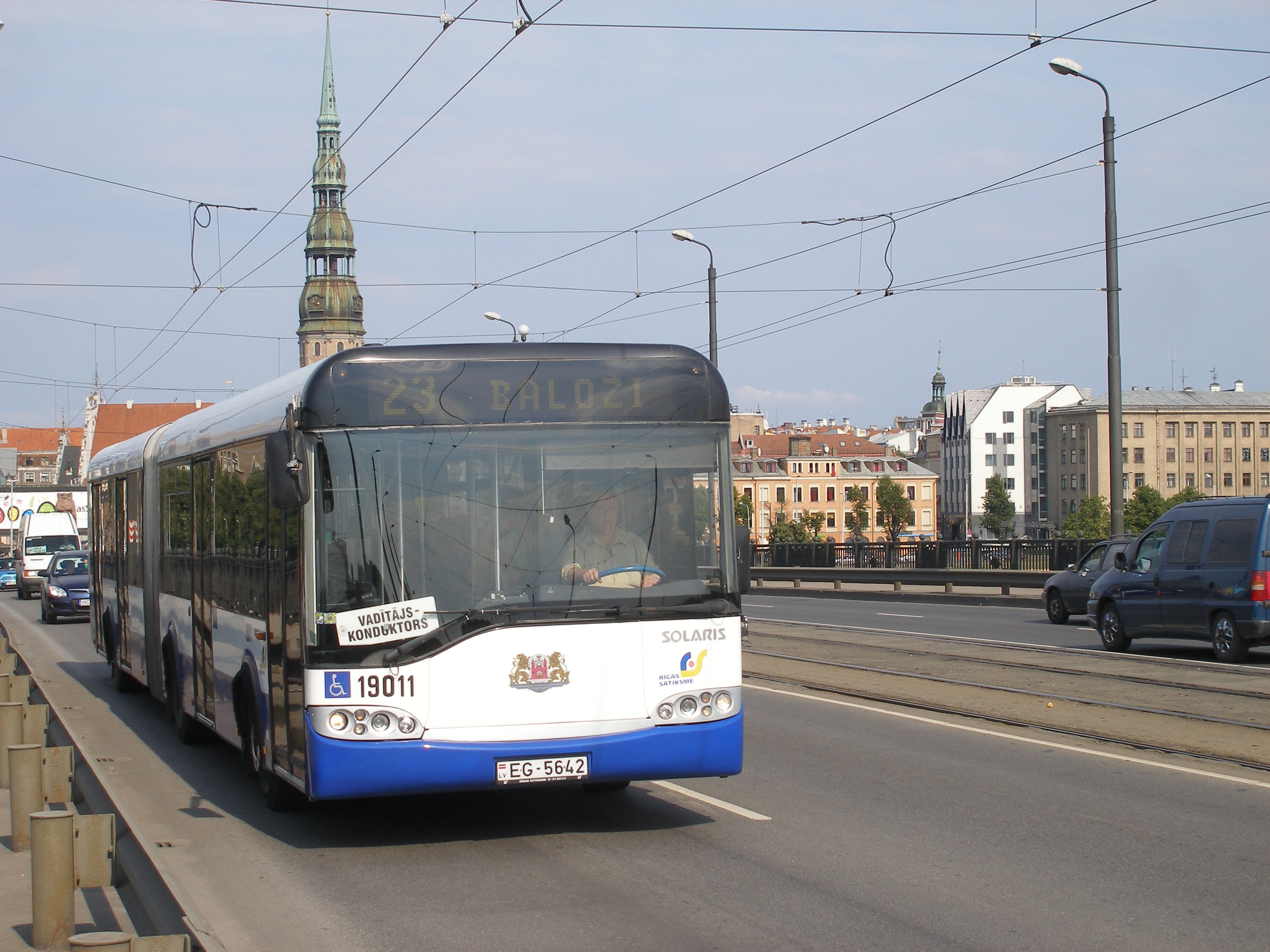 Solaris Urbino 18 Mk1 bus (#19011, since 2009 - #69014) on the Stone Bridge in Riga, Latvija. Built 2001, SIA Rīgas Satiksme operator.